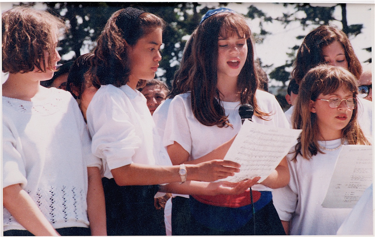 Photo of Congregation Habonim Toronto Youth Choir performing at the opening of the Yad Vashem Holocaust Memorial at Earl Bales Park, Toronto, June 2, 1991.jpg